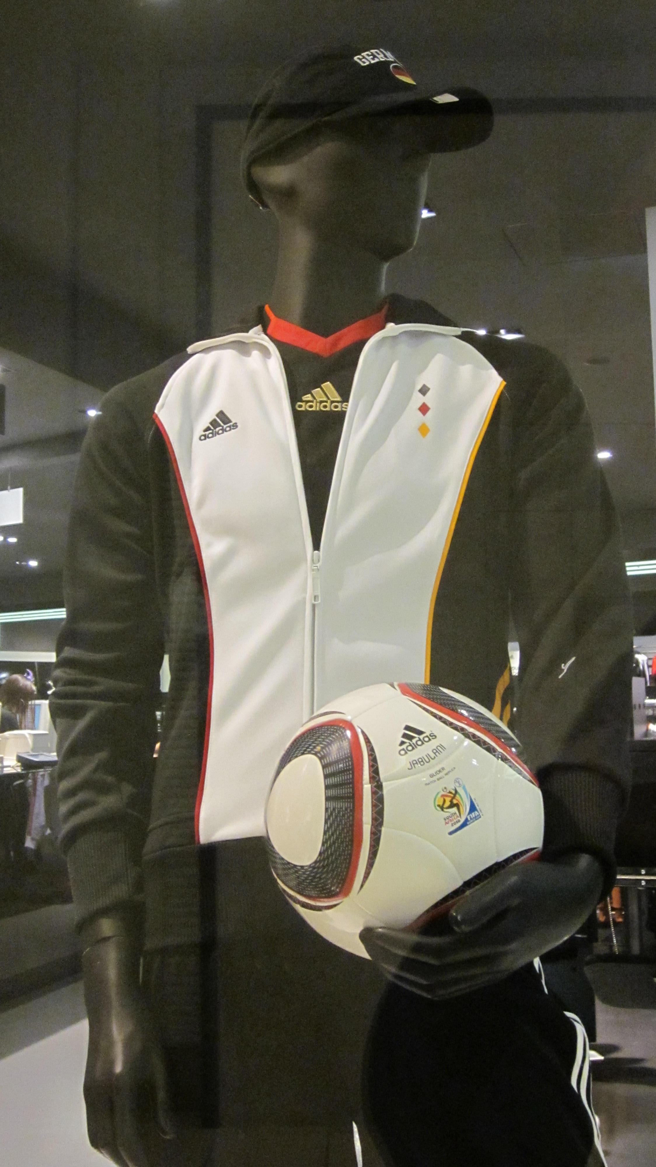 Adidas 2010 FIFA World Cup Germany gear.